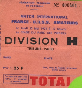 Ticket to the match France v USSR association football olympic teams for the qualification to the olympic tournament at Munich, West Germany, 1972. The match was the opening game of the renewed Parc des Princes in Paris, France.